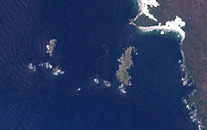 This image (Landsat 7) shows the Mutton Bird Islands group, off the south-west coast of the island Tasmania, Australia